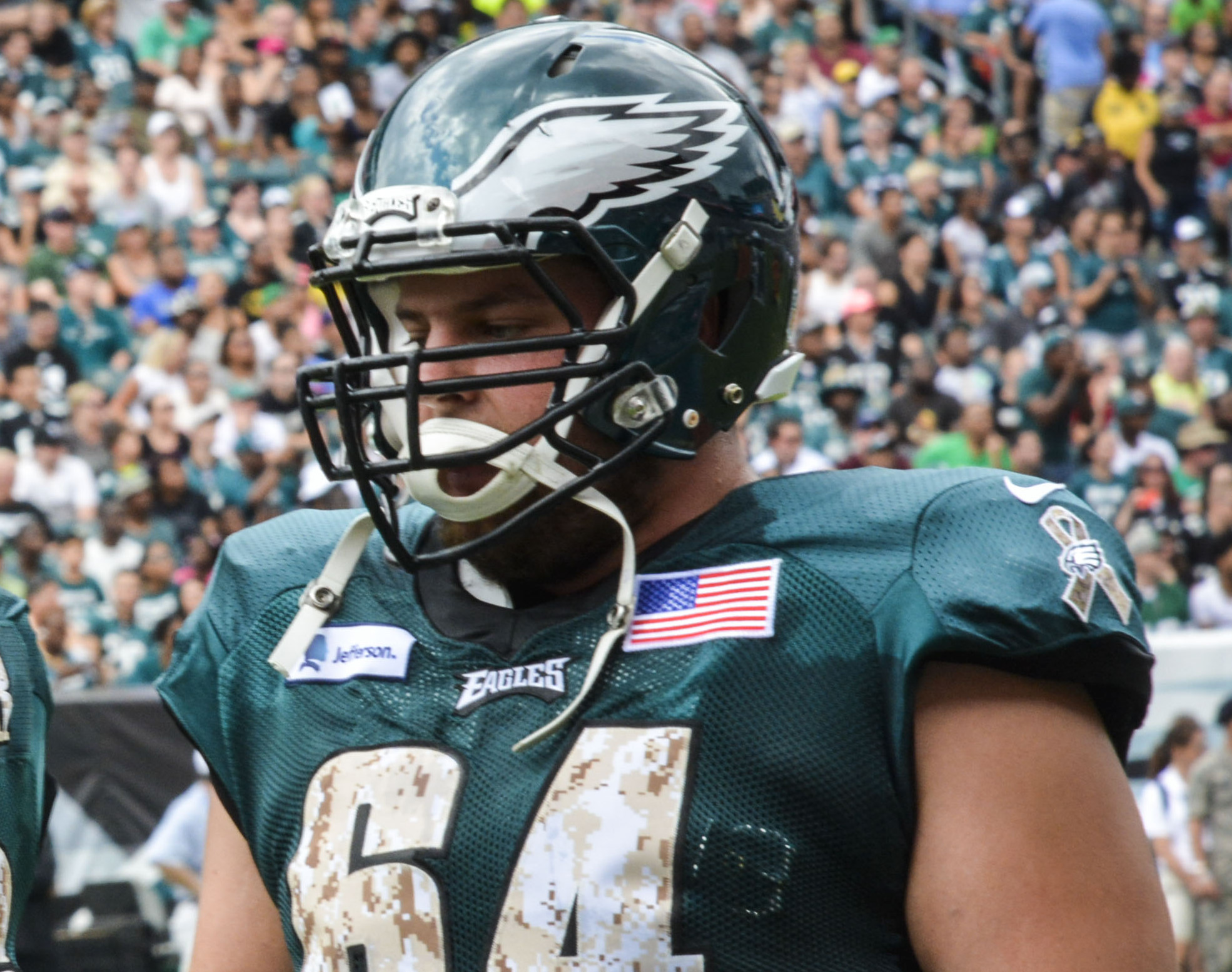 Philadelphia Eagles offensive tackle, Matt Tobin, at Military Appreciation Day at 2015 Eagles Training Camp.